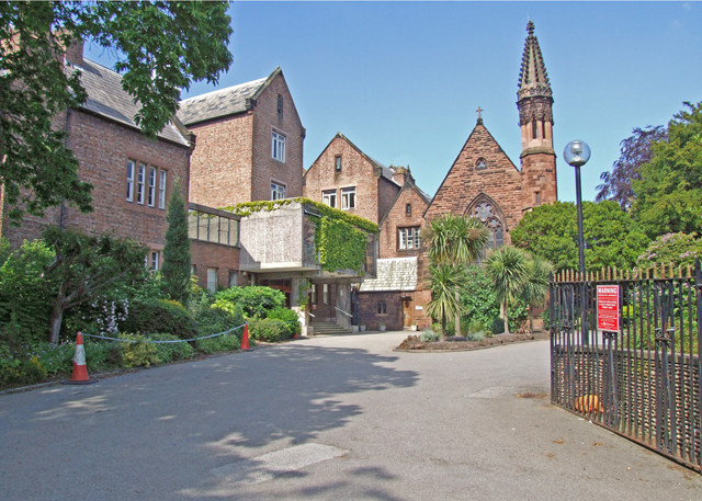 University of Chester University chapel to the right of centre of picture.